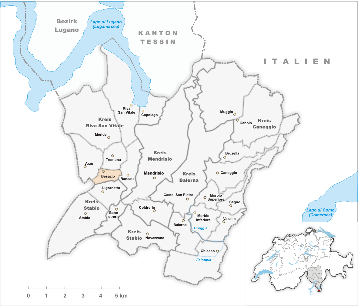 Municipality Besazio